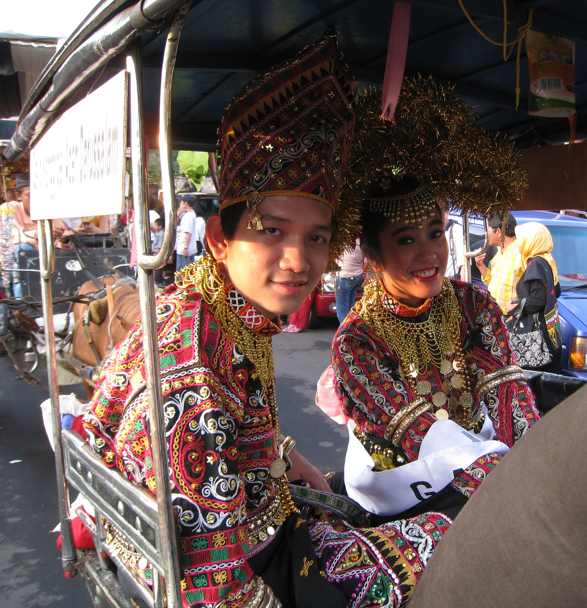 Gayo traditional wedding costume, displayed in Taman Mini Indonesia Indah, Jakarta.